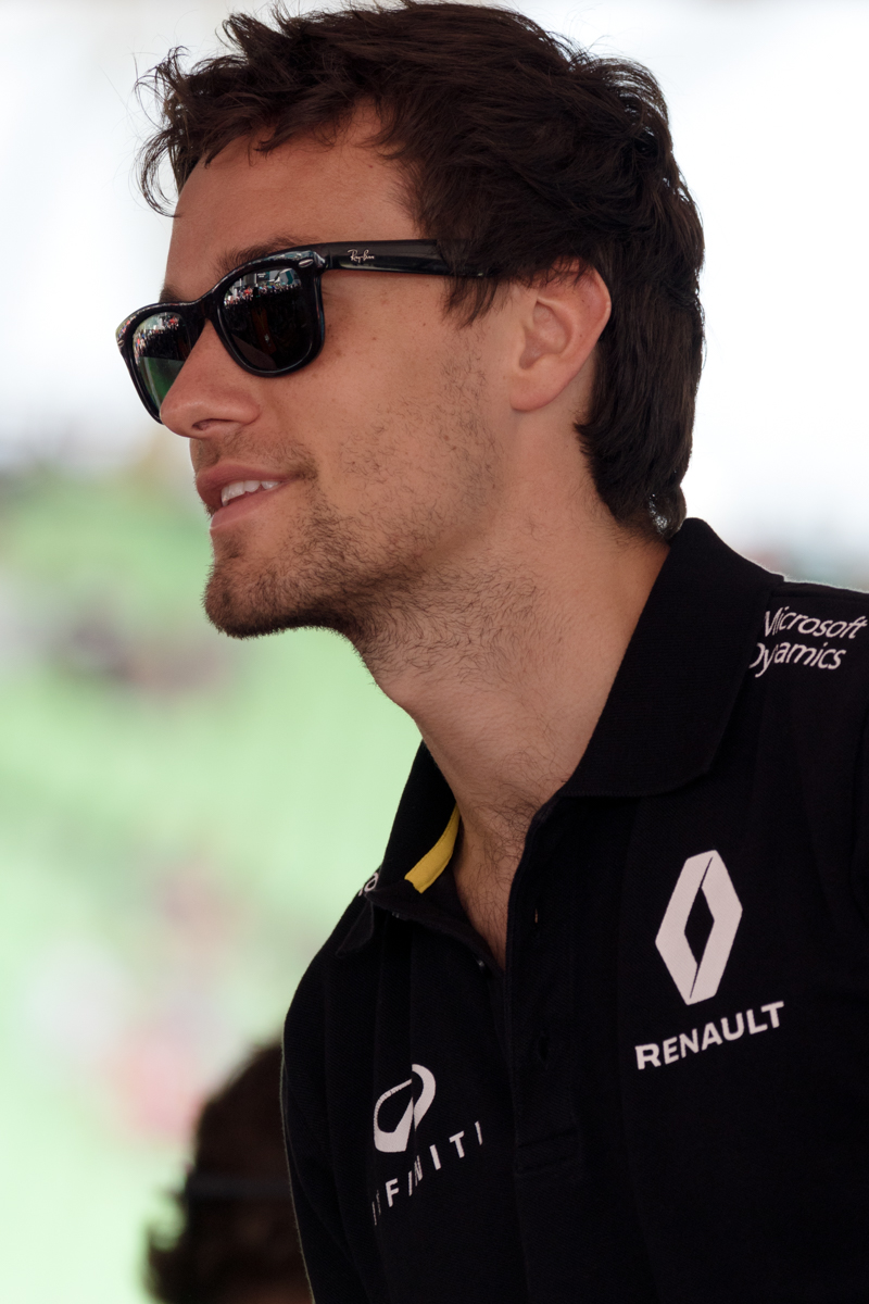 Formula One 2016 Rd.16 Malaysian GP: Jolyon Palmer (Renault)